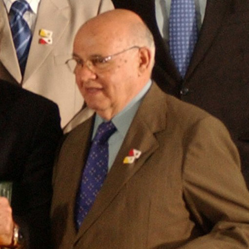 José Macia, better known as "Pepe".